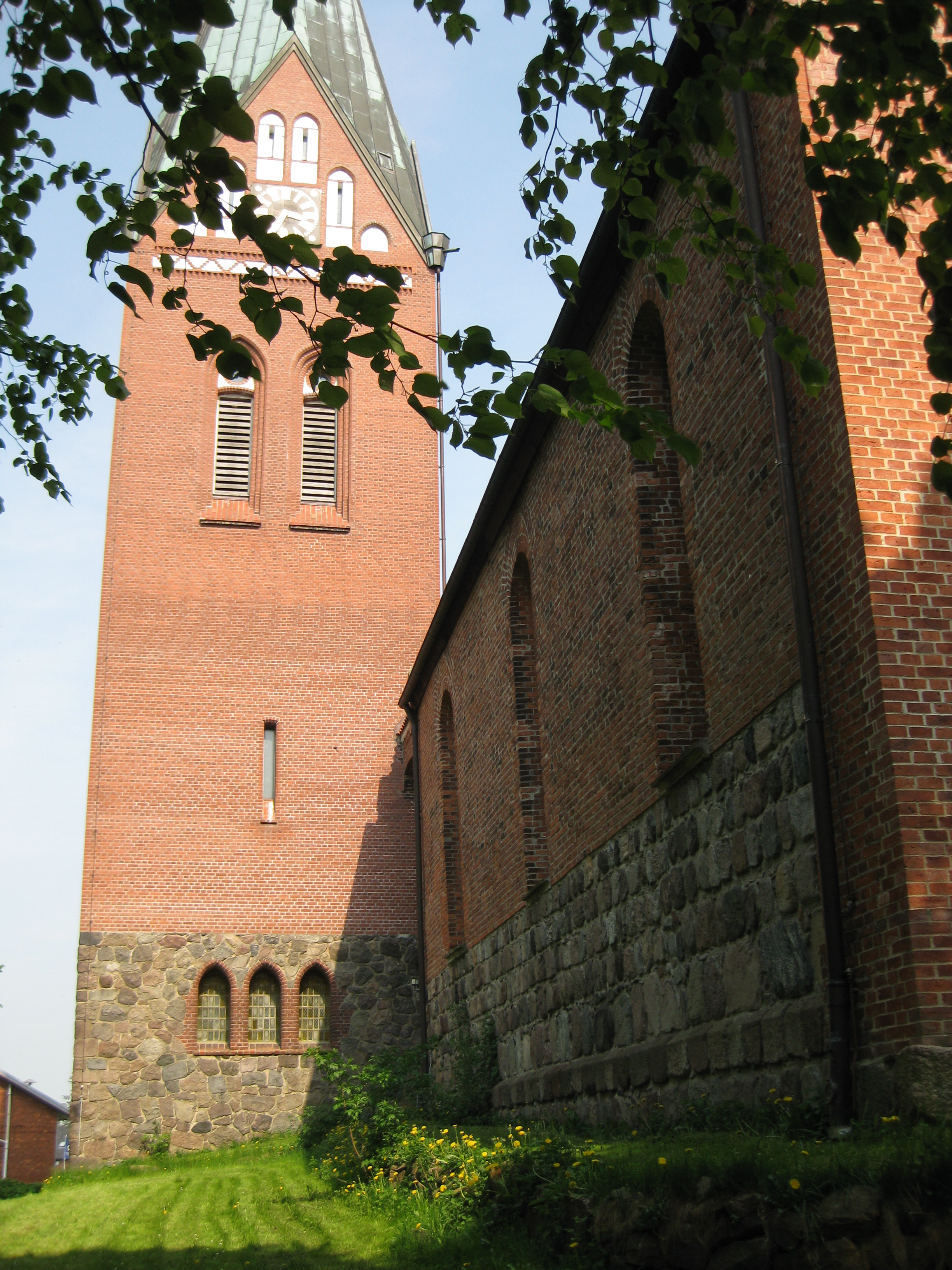 Brick Gothic St. Mary's in Sandesneben, district Herzogtum Lauenburg. The Tower is from 1906 and replaced a timber framed tower, which burnt down in 1878. The church ist located on a small hill, about 12 meters above the village. For this reason, the tower is northeast and not on the westside of the church.